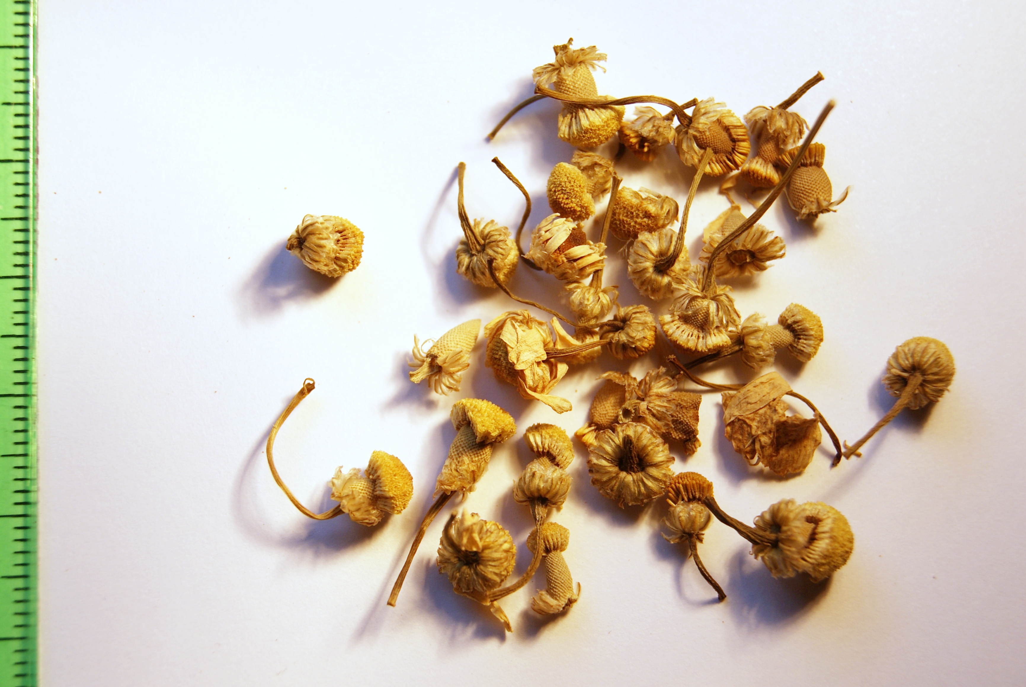 Flores Chamomillae/ Matricariae flos (Matricaria recutita)